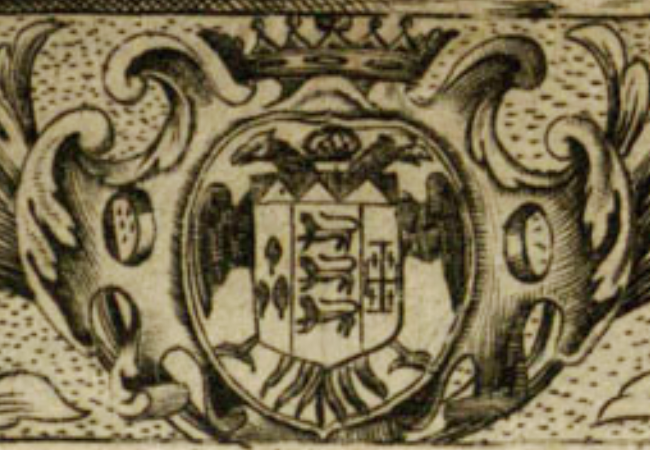 Attributed Coat of Arms of Frederick II, Holy Roman Emperor (Historia della Città e Regno di Napoli)